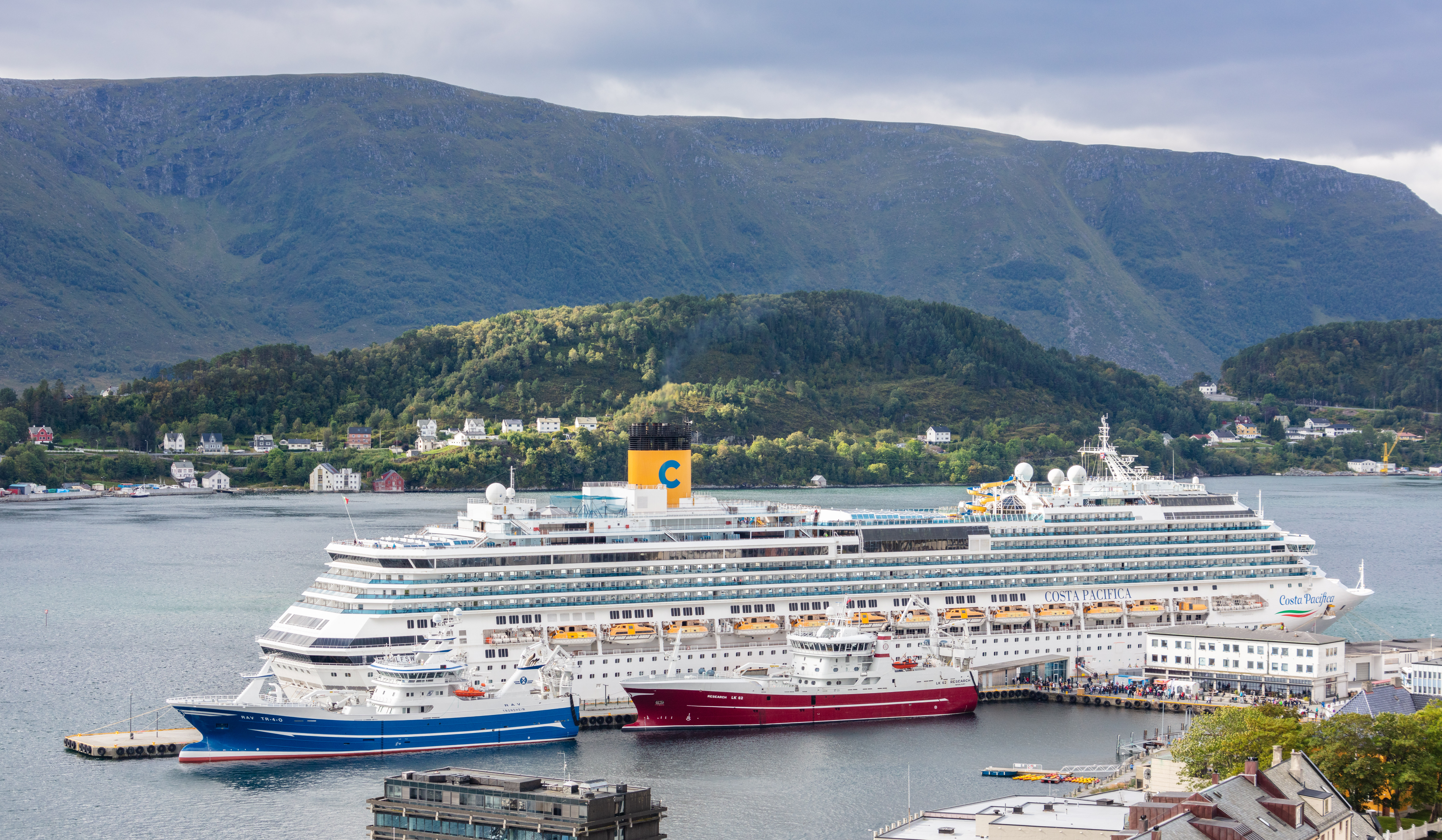 Costa Pacifica vessel from Aksla, Ålesund, Norway